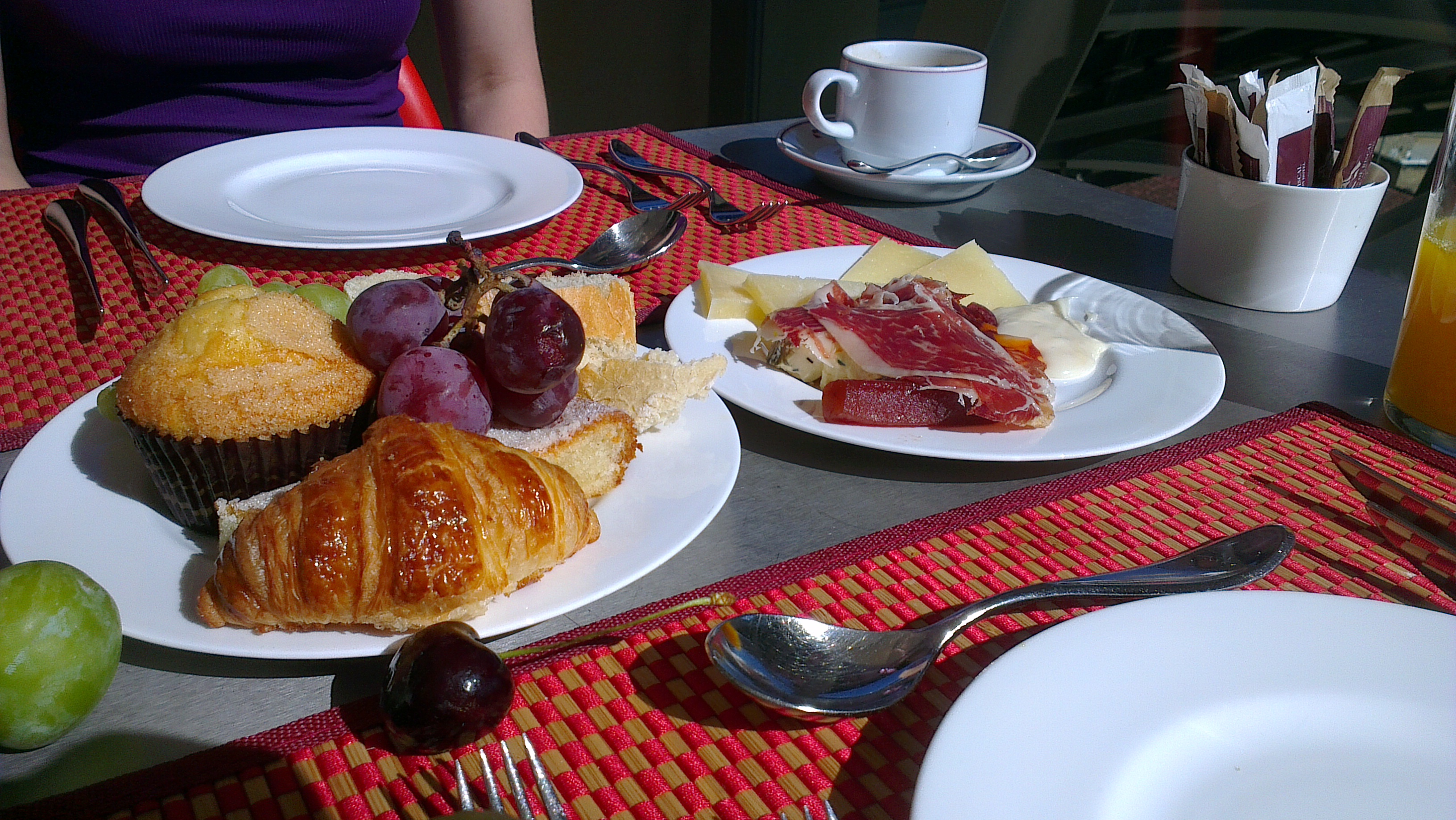 A typical continental breakfast, consisting of pastries, fruit, slices of cheese and meat, and coffee.